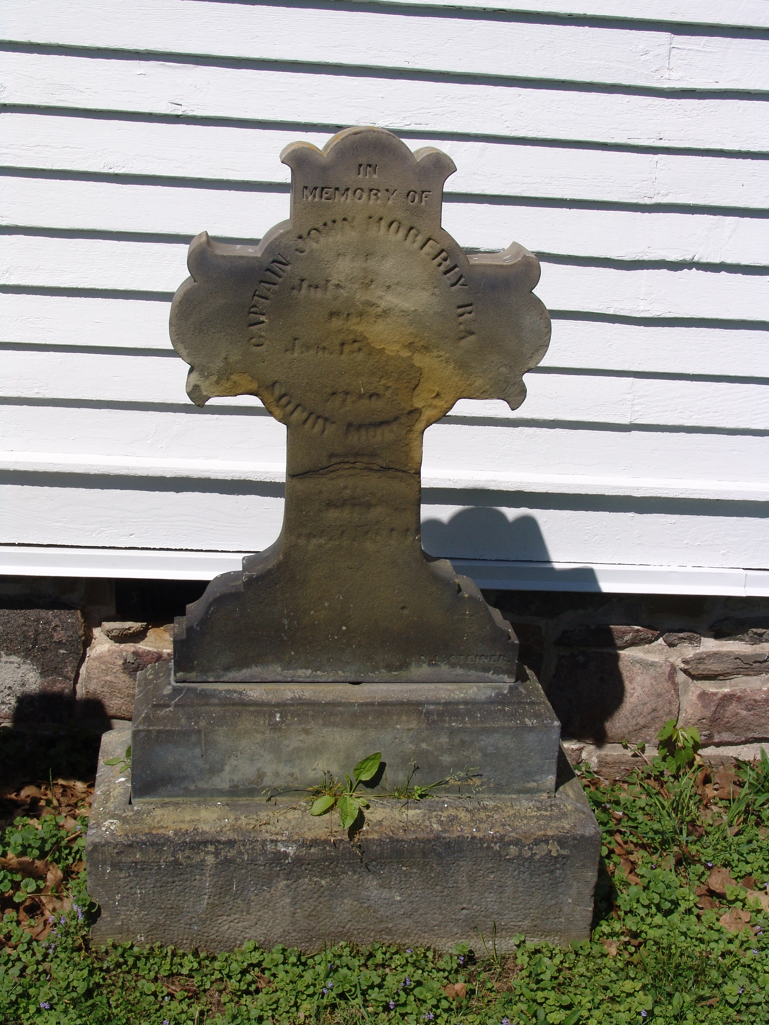 in graveyard of St James-On-the-Lines church in Penetanguishene, Ontario